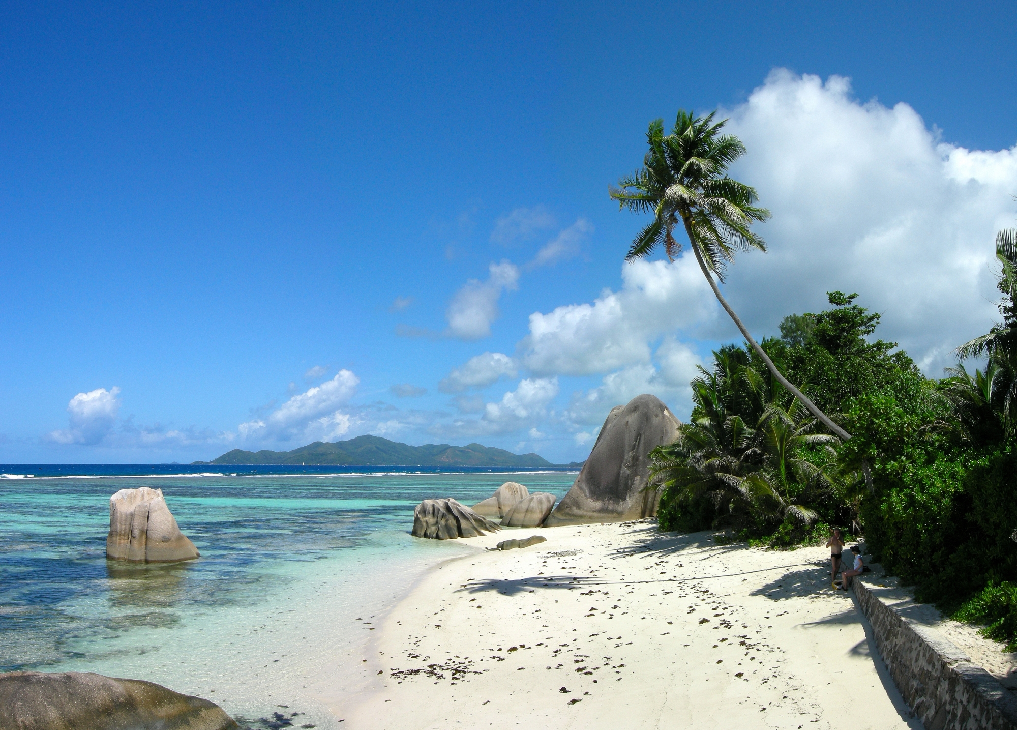 Another spectacular beach of Anse Source d'Argent on the island of La Digue, Seychelles.